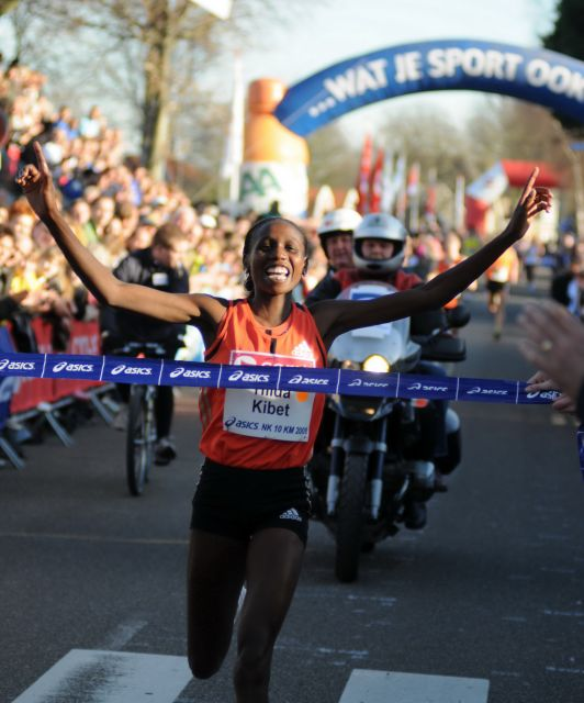 Hilda Kibet during Dutch Championship 10 km in Schoorl 2008